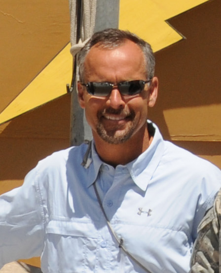 Mike Nolan (right center), head coach of the National Football League’s San Francisco 49ers, takes time for a group photo at Forward Operating Base Lightning, Afghanistan, during a morale visit June 24, 2008. Nolan and former 49ers defensive back Eric Davis (left center) came as guests on the Ron Barr talk show to visit deployed troops. Combined Security Transition Command Afghanistan’s Morale, Welfare and Recreation department sponsored the event.